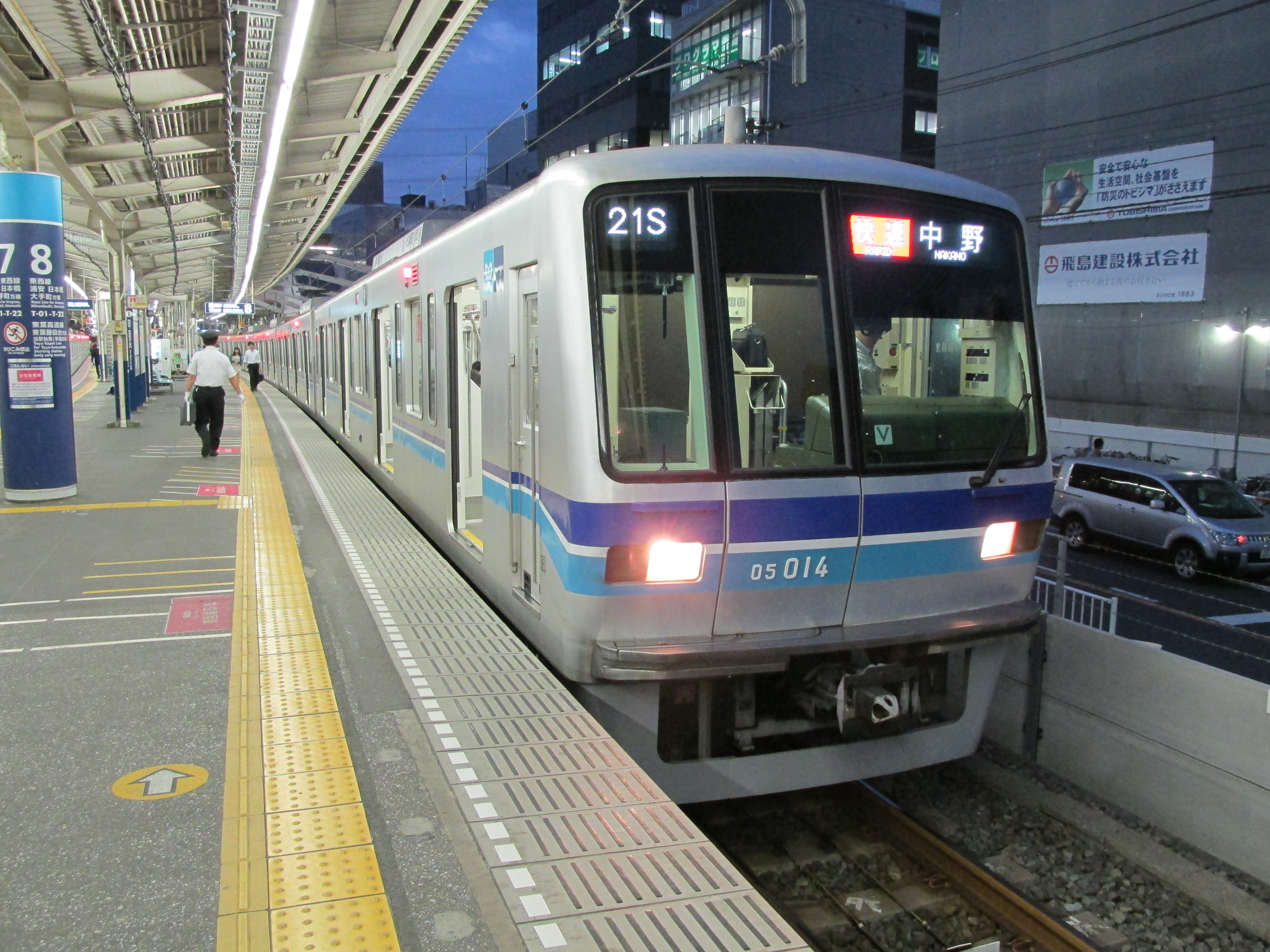 Refurbished Tokyo Metro 05 series EMU set 14 at Nishi-Funabashi Station